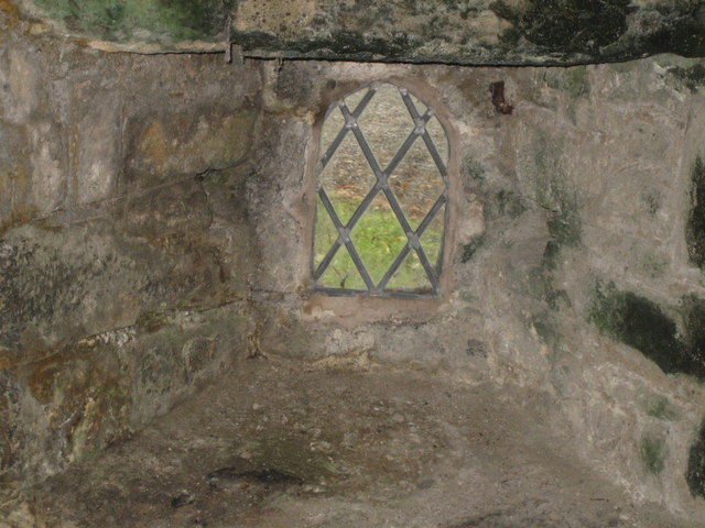 Hermit's Window From the inside of St. Doolagh's Church, the small window which is reputed to have been the location of the original window where the hermit placed his plate in the hope of receiving food. OSI maps spell as St. Doolagh while the majority of local usage is St. Doulagh.